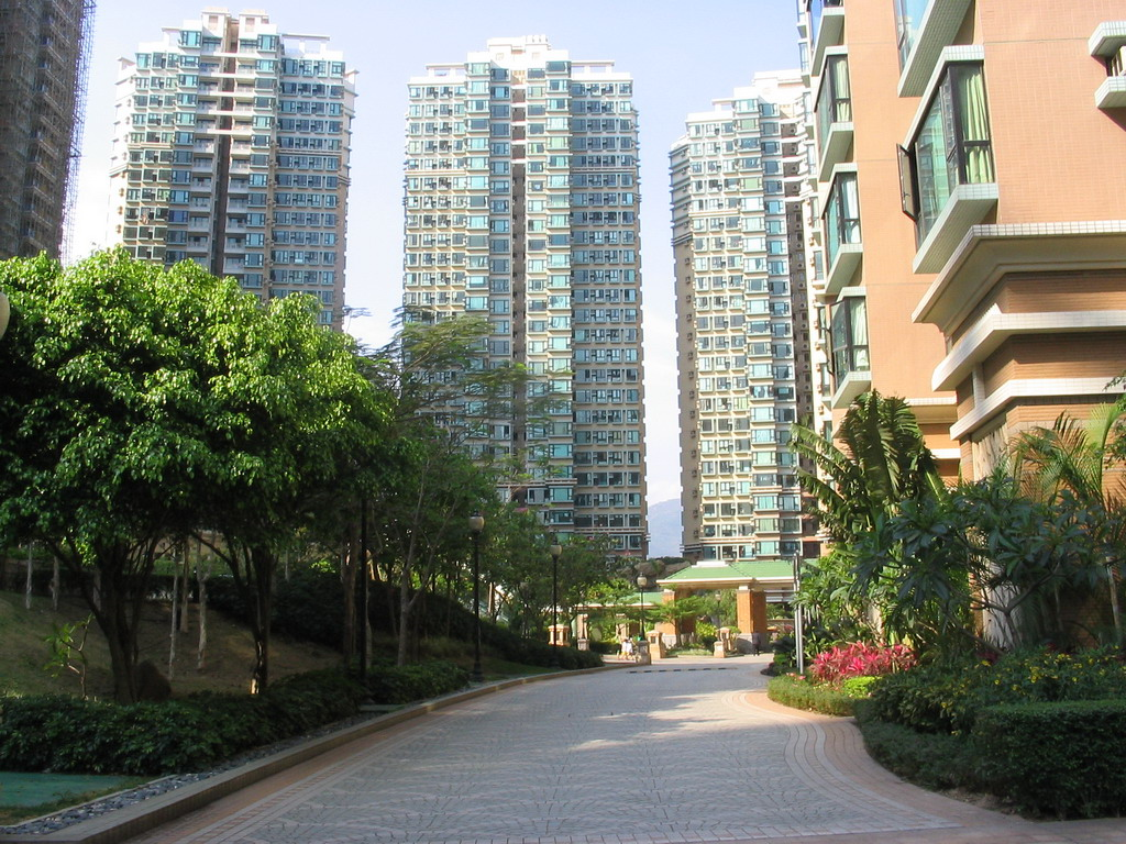 珀麗灣一期B及二期 Phase 1B & 2 of Park Island